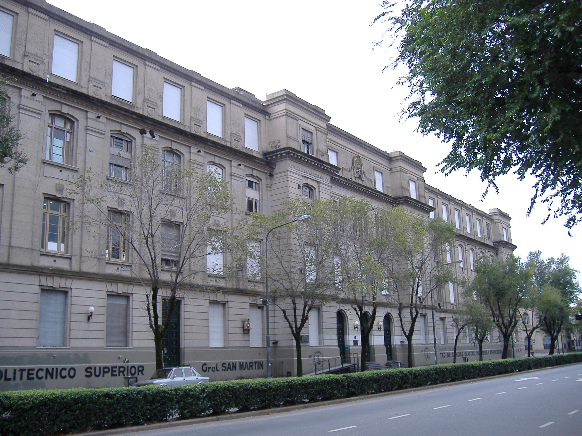 The Faculty of Engineering, Land Surveying and Exact Sciences of the National University of Rosario and the Politécnico highschool, in Rosario, Argentina.